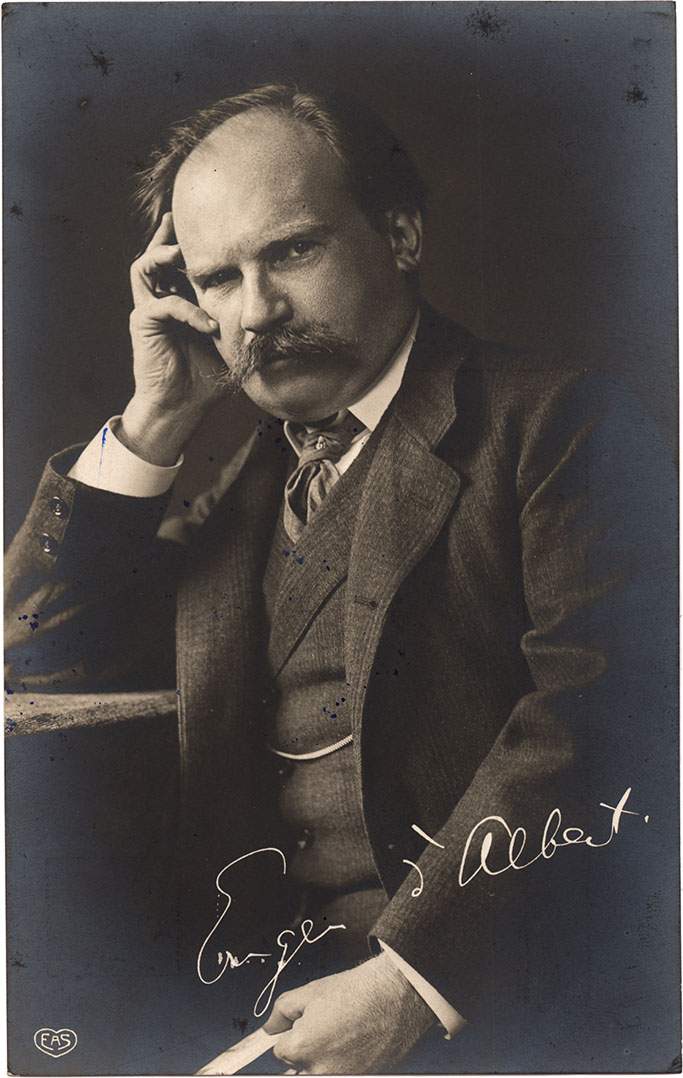 Portrait of Eugen Francis Charles D'Albert, composer (1864-1932). Photo by unknown, before 1932.